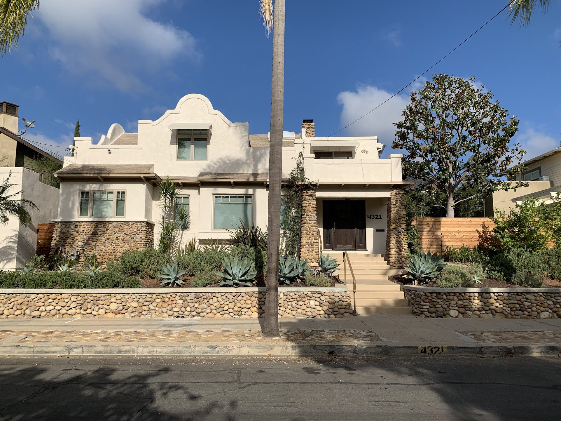 Architecture in Mission Hills, San Diego